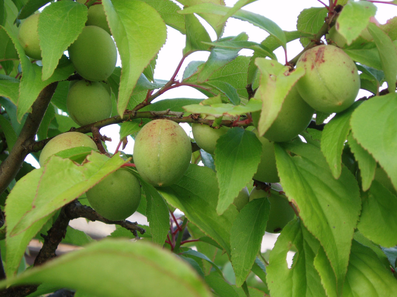 Fruits of Japanese plum (Ume) - 梅の実